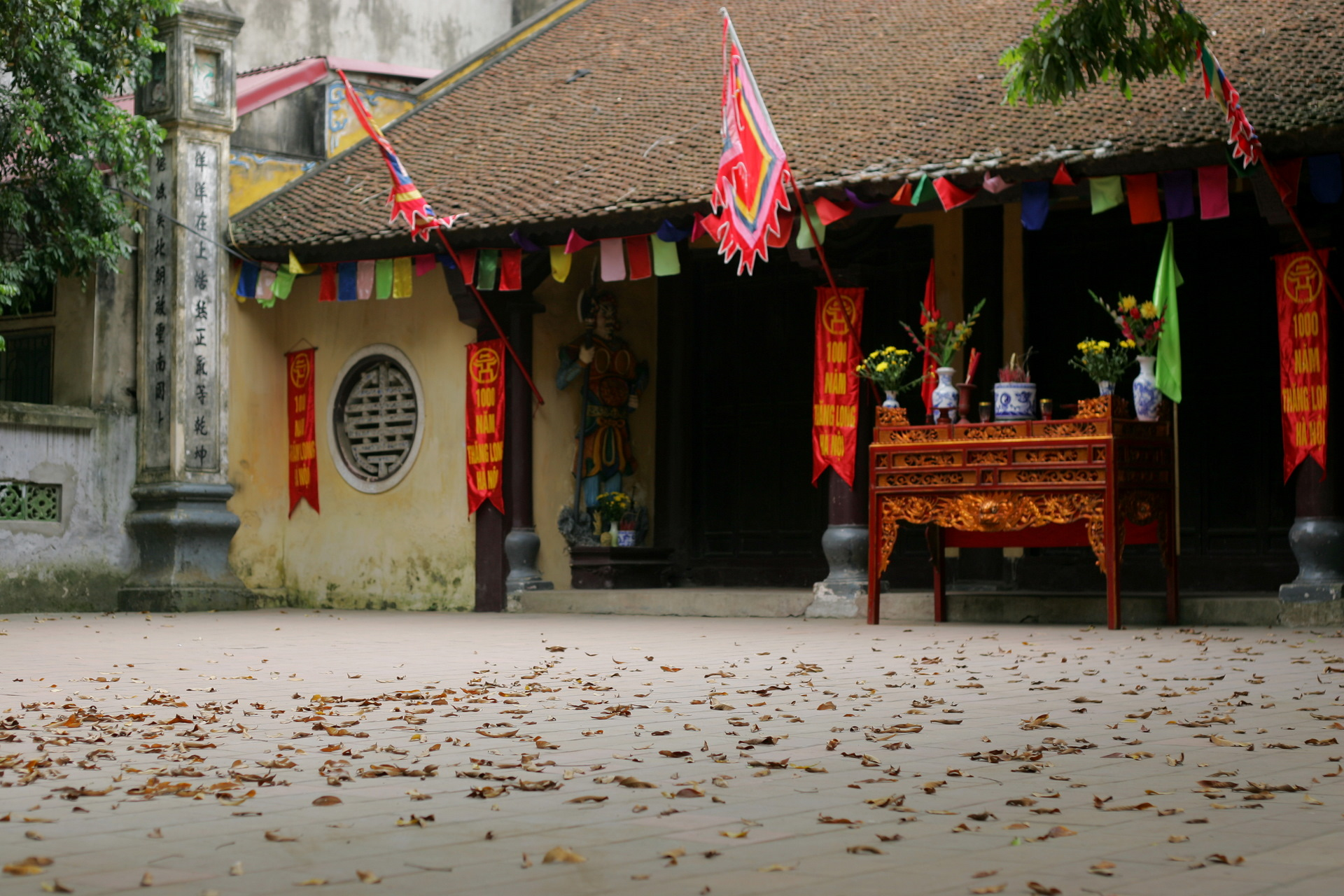 Hai Bà Trưng Temple, Hanoi